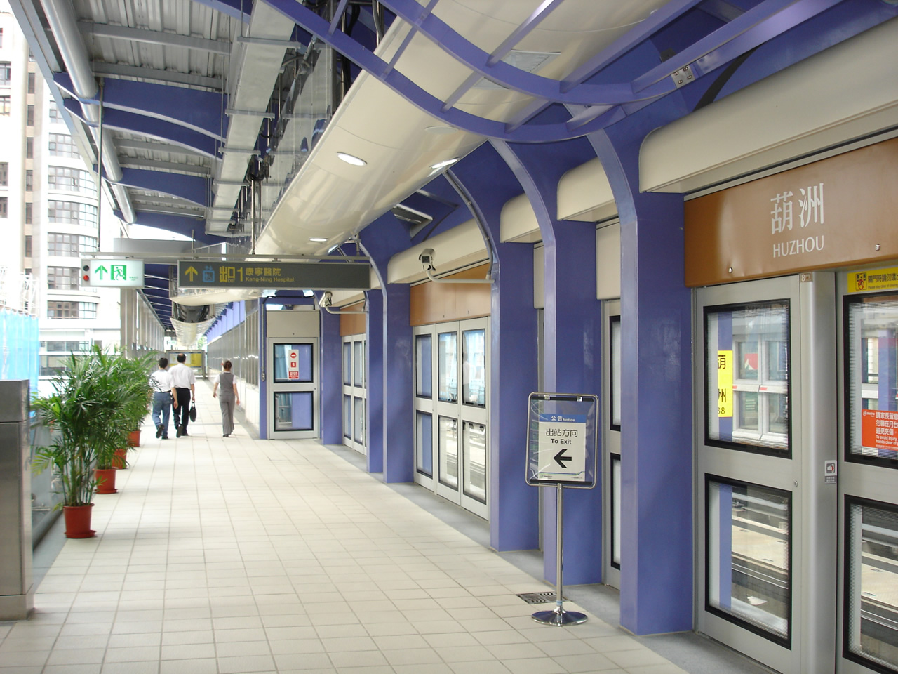 Platform 2, Huzhou Station, Taipei Metro.